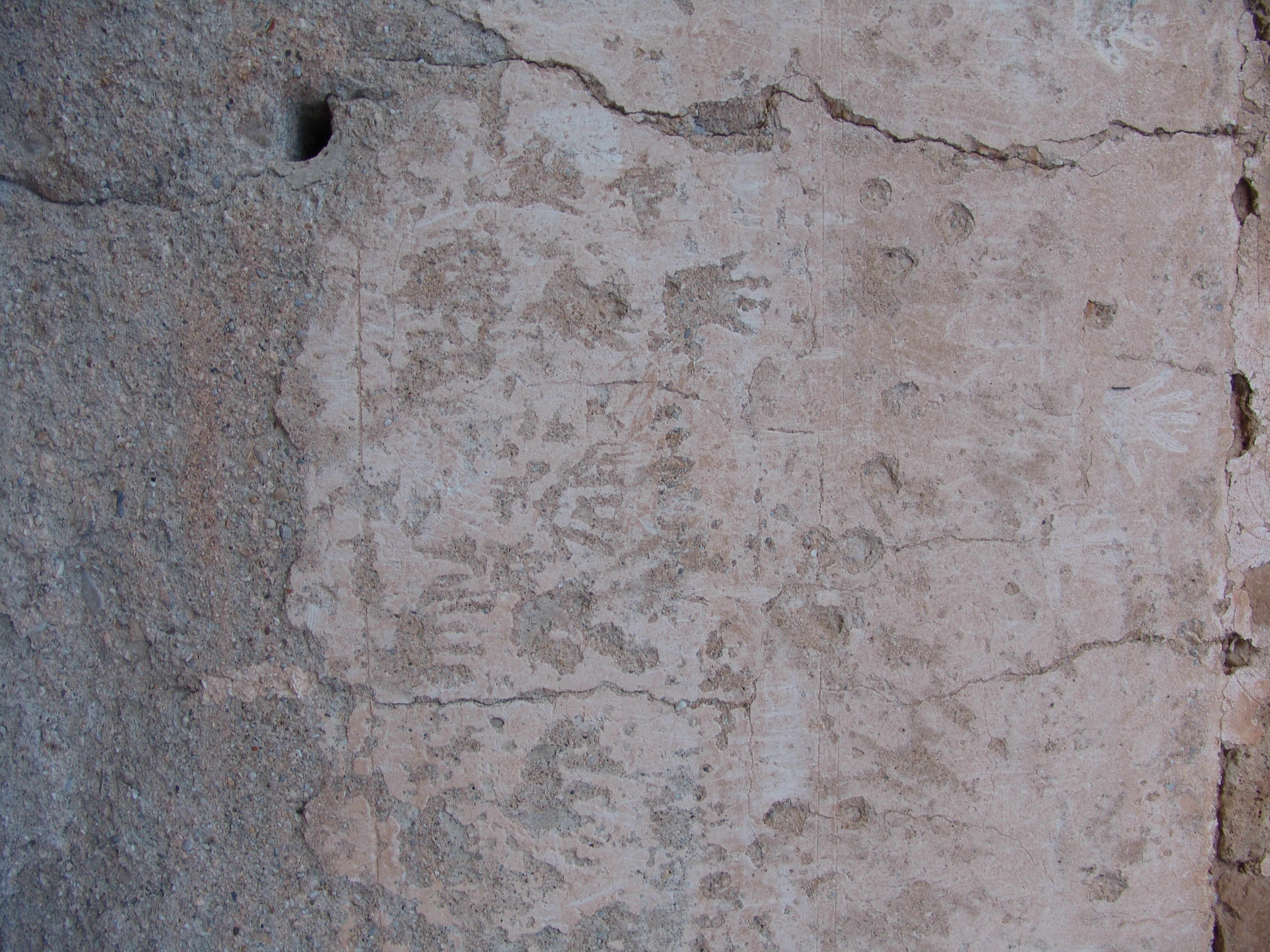 Cúllar´s keep (Granada).